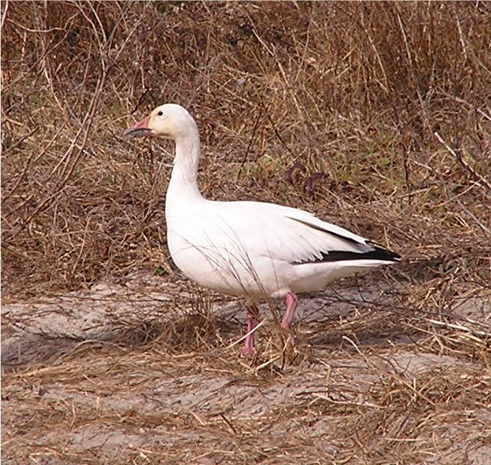 Snow goose, Pea Island